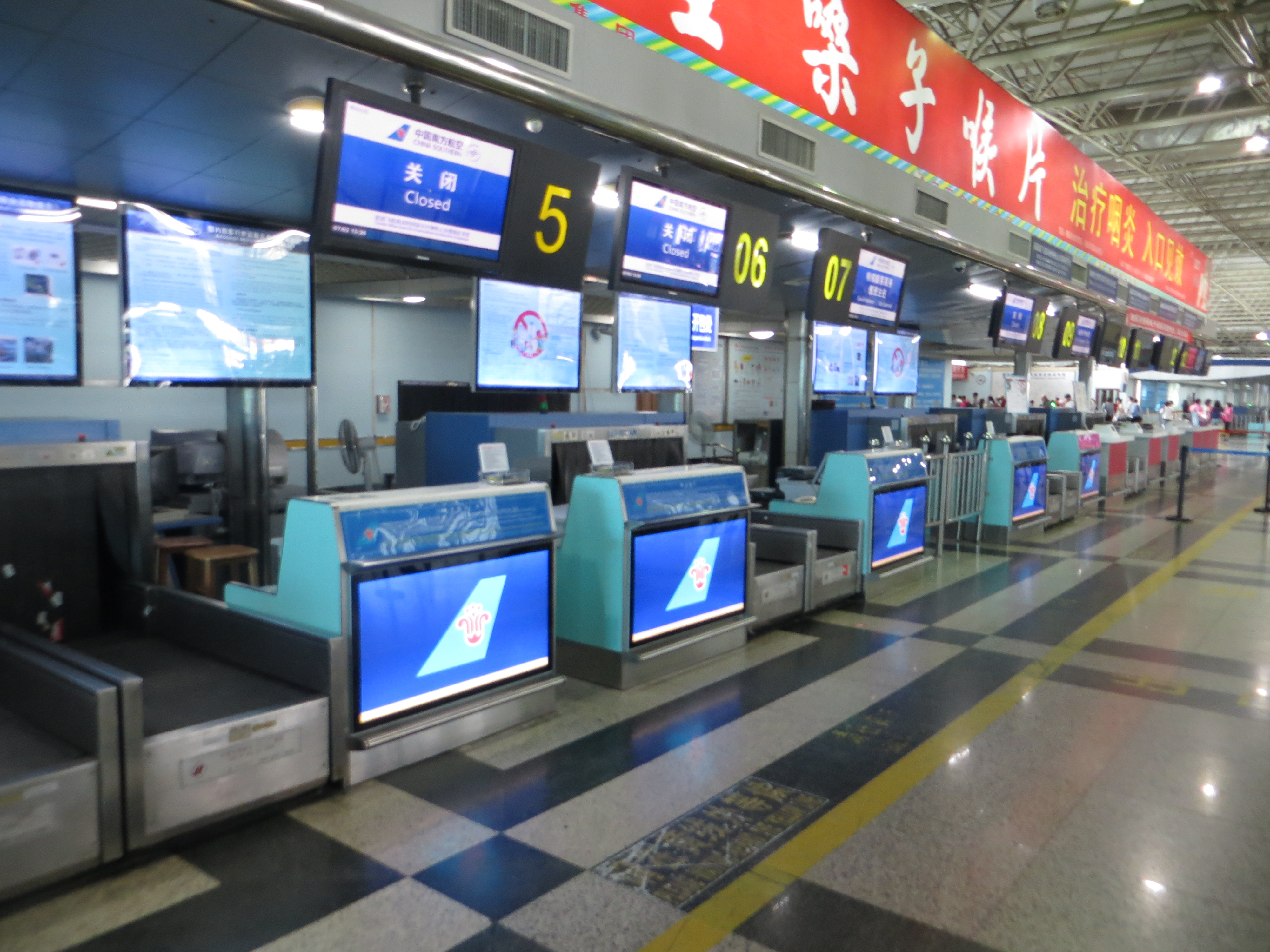 China Southern ticketing counters at Guilin Airport, China.